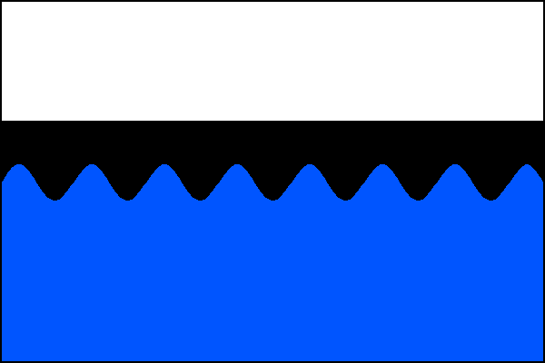 Flag of Konětopy municipality, Prague-East District, Czech Republic.